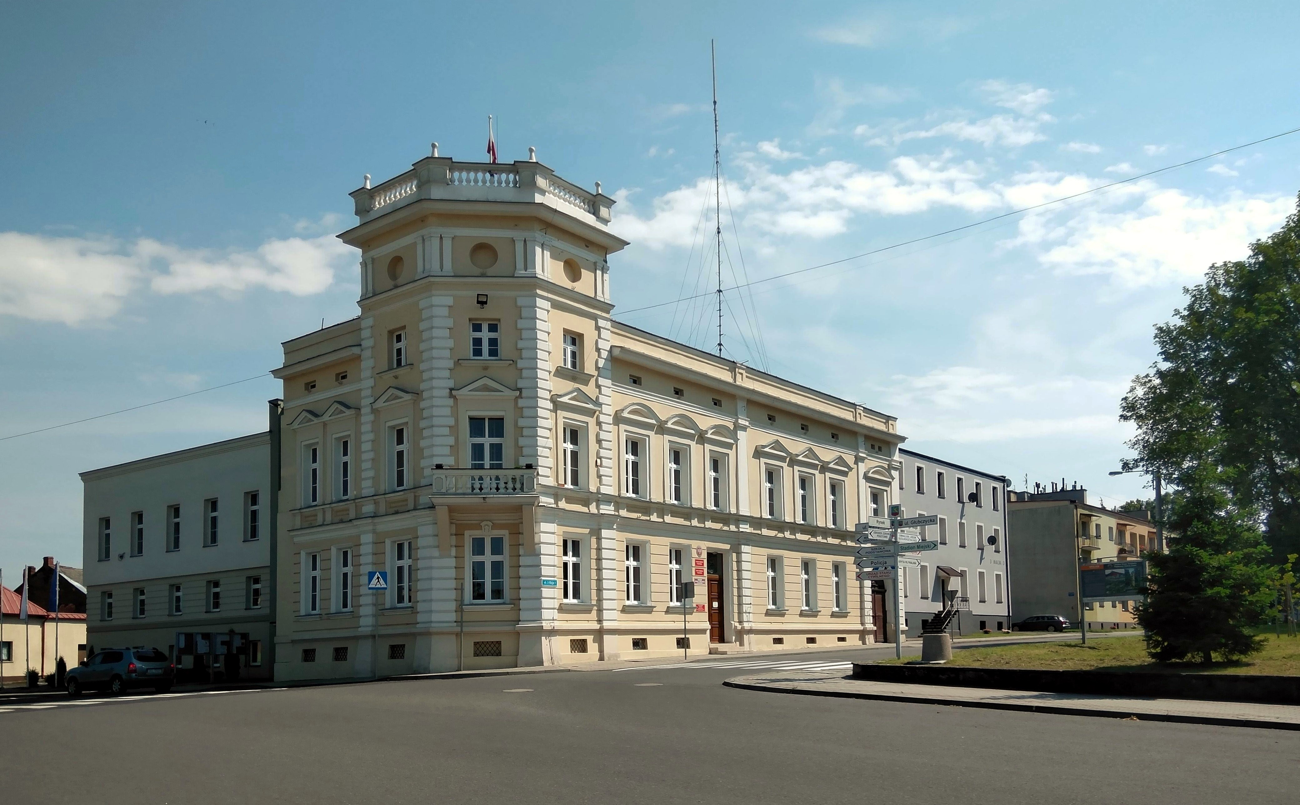 The Town Hall (1887) in Kietrz/Katscher, Upper Silesia, Poland